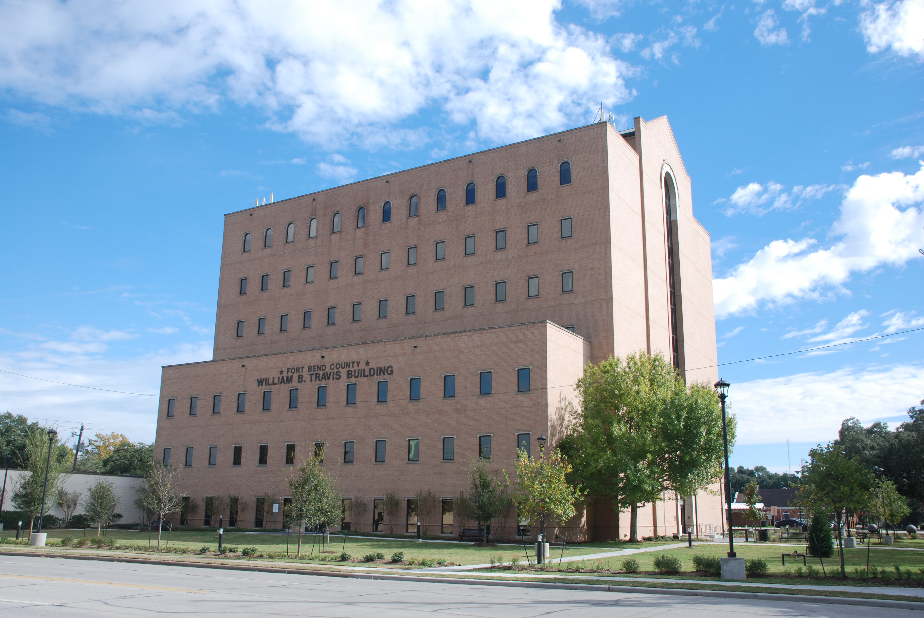 Fort Bend County William B. Travis Building (Richmond, Texas, USA)